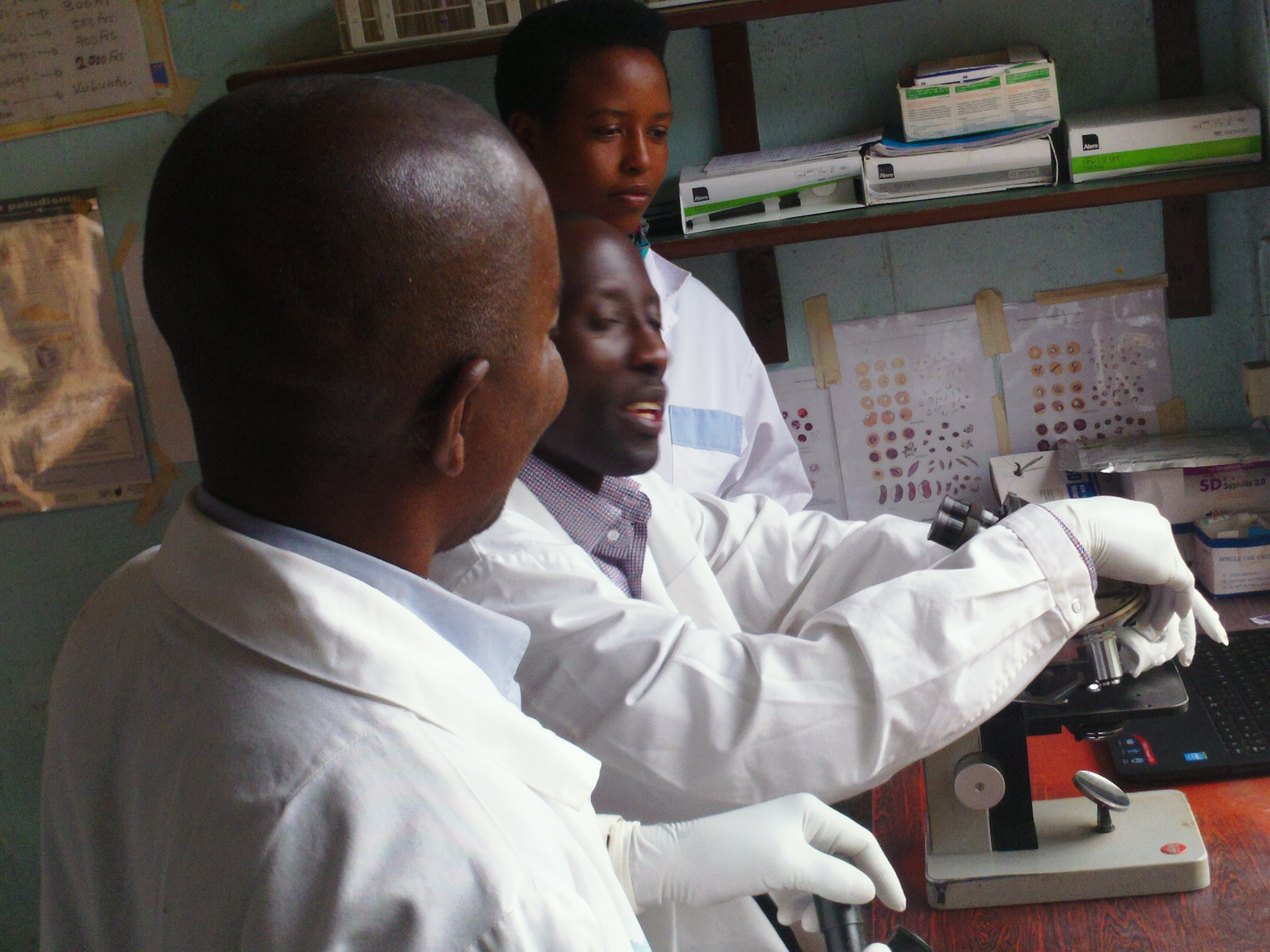 Kirundi: NATUNGANIJE INAMA YO GUKARIHIRIZA UBWENGE ABAGANGA MUVYEREKEYE GUPIMA INDWARA. This is an image of "African people at work" from Burundi